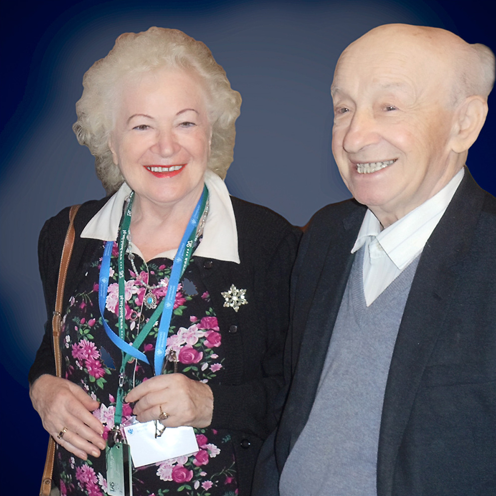 Renata Reisfeld with her husband Eliezer Reisfeldf